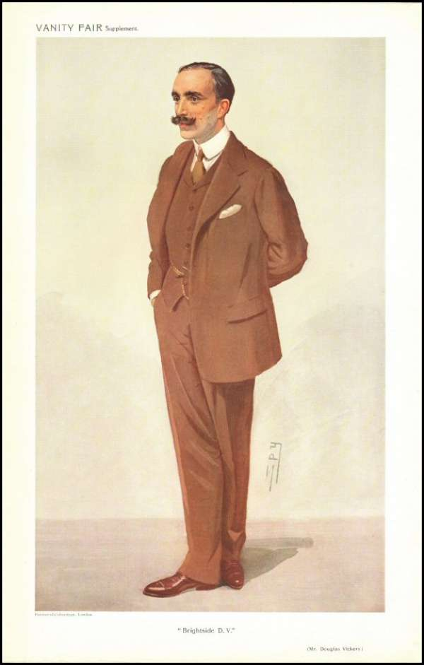 Caricature of Douglas Vickers (1861-1937). Caption read "Brightside DV".